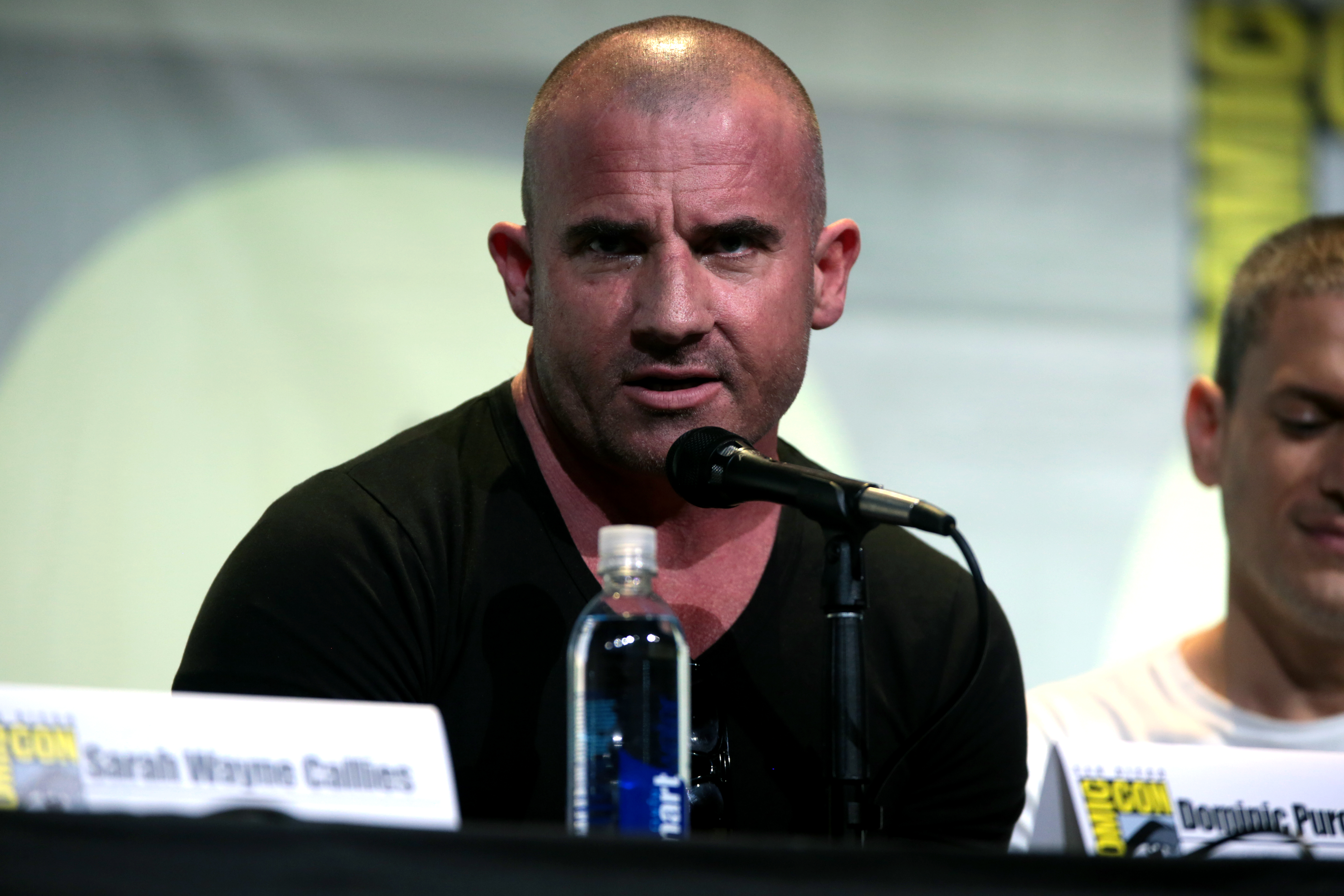 Dominic Purcell speaking at the 2016 San Diego Comic Con International, for "Prison Break", at the San Diego Convention Center in San Diego, California.